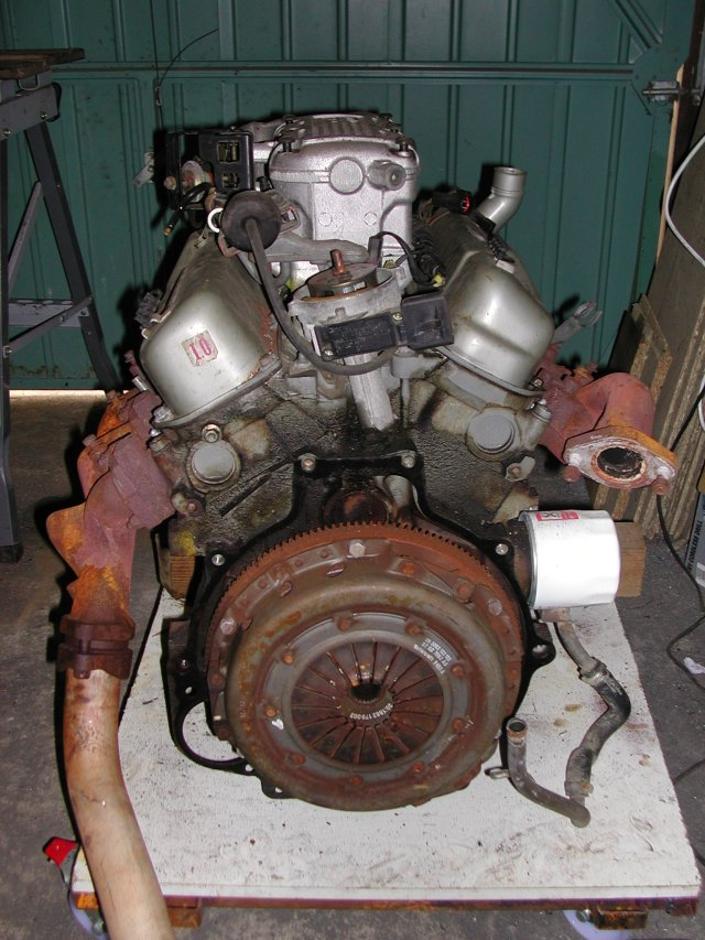 Ford Cologne V6 engine from the rear (flywheel) side. This is a 2.9 model, photographed by Stephen Gusterson, uploaded to Wikipedia by User:Morven. Permission letter follows: From: steve gusterson To: Matt Brown Date: Sun, 29 Aug 2004 13:53:58 +0100 Subject: RE: Pictures of Ford "Cologne" V6 Hi no problems - you can use the pictures. be nice to see it on wikipedia cheers steve